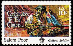 The 1975, 10 cent postage stamp depicting Salem Poor. Has small version of U.S. Bicentennial star Source: Scanned by wysinger, stamp collection Author: United States Postal Service